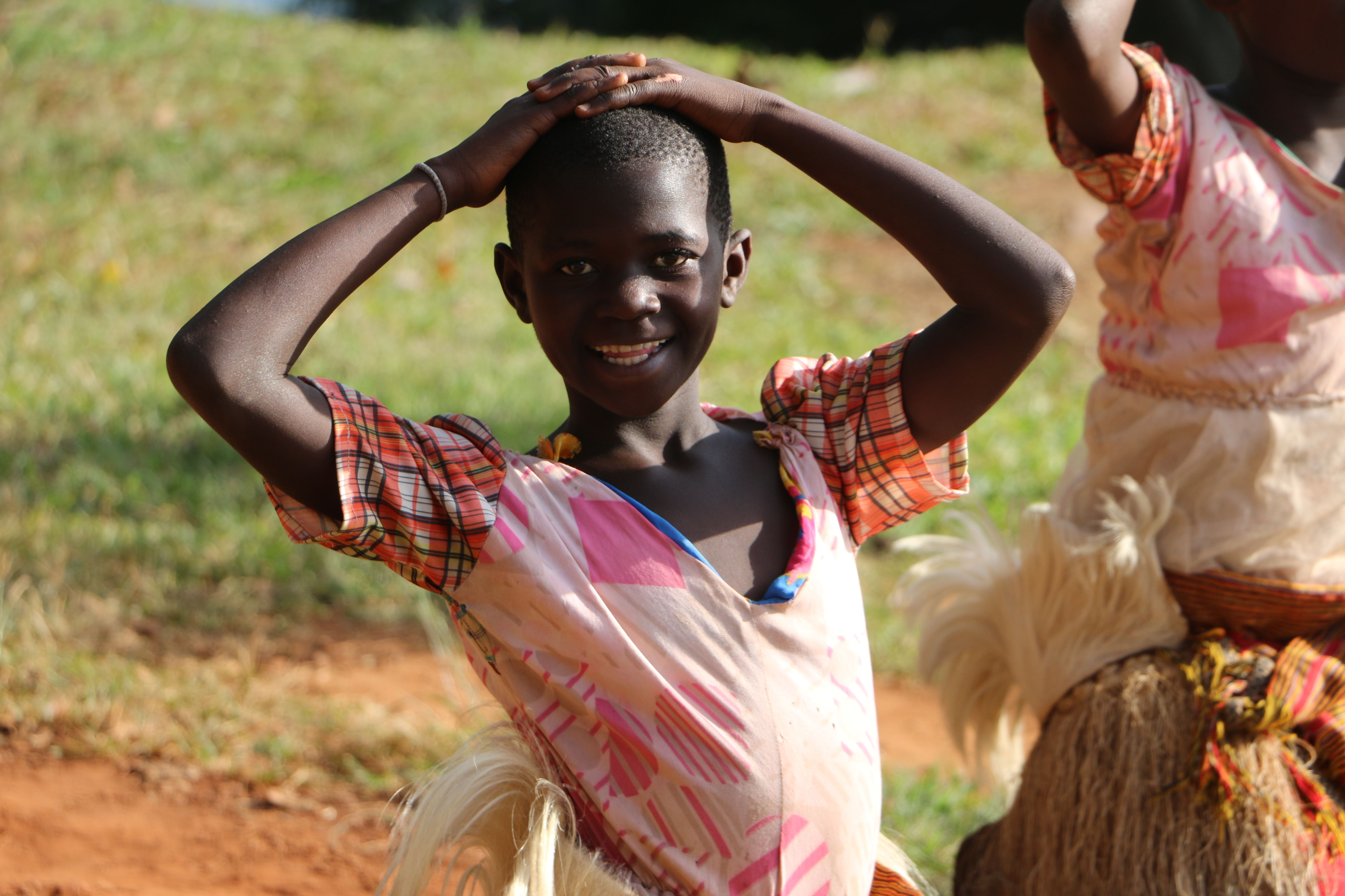 Girls dancing the famous Kitaguriro dance of the Bakiga / Banyankole people in Uganda This is an image of "African people at work" from Uganda